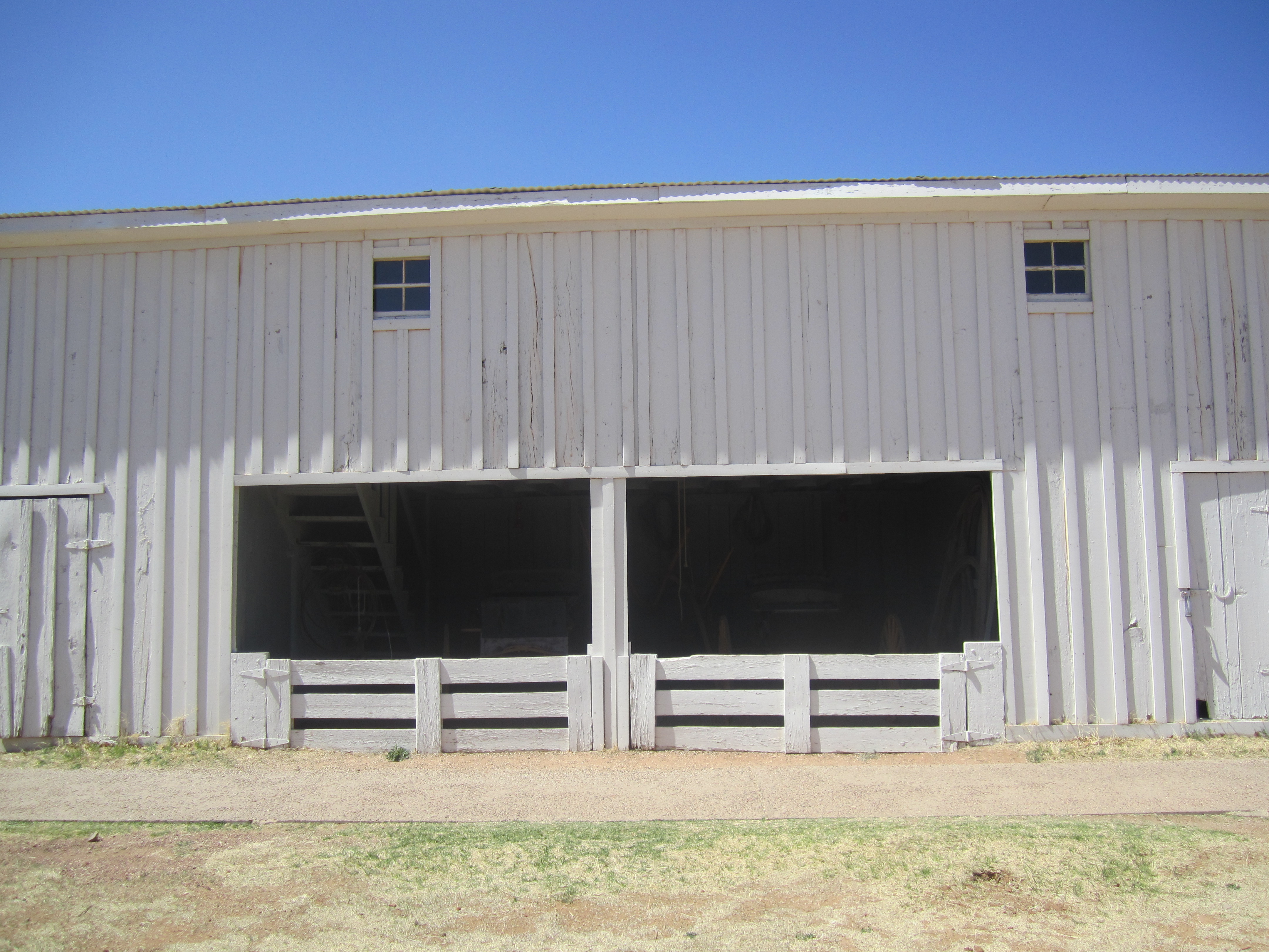 John B. Slaughter's carriage house moved from the U Lazy S Ranch southwest of Post, Texas, to the National Ranching Heritage Center in Lubbock, Texas.